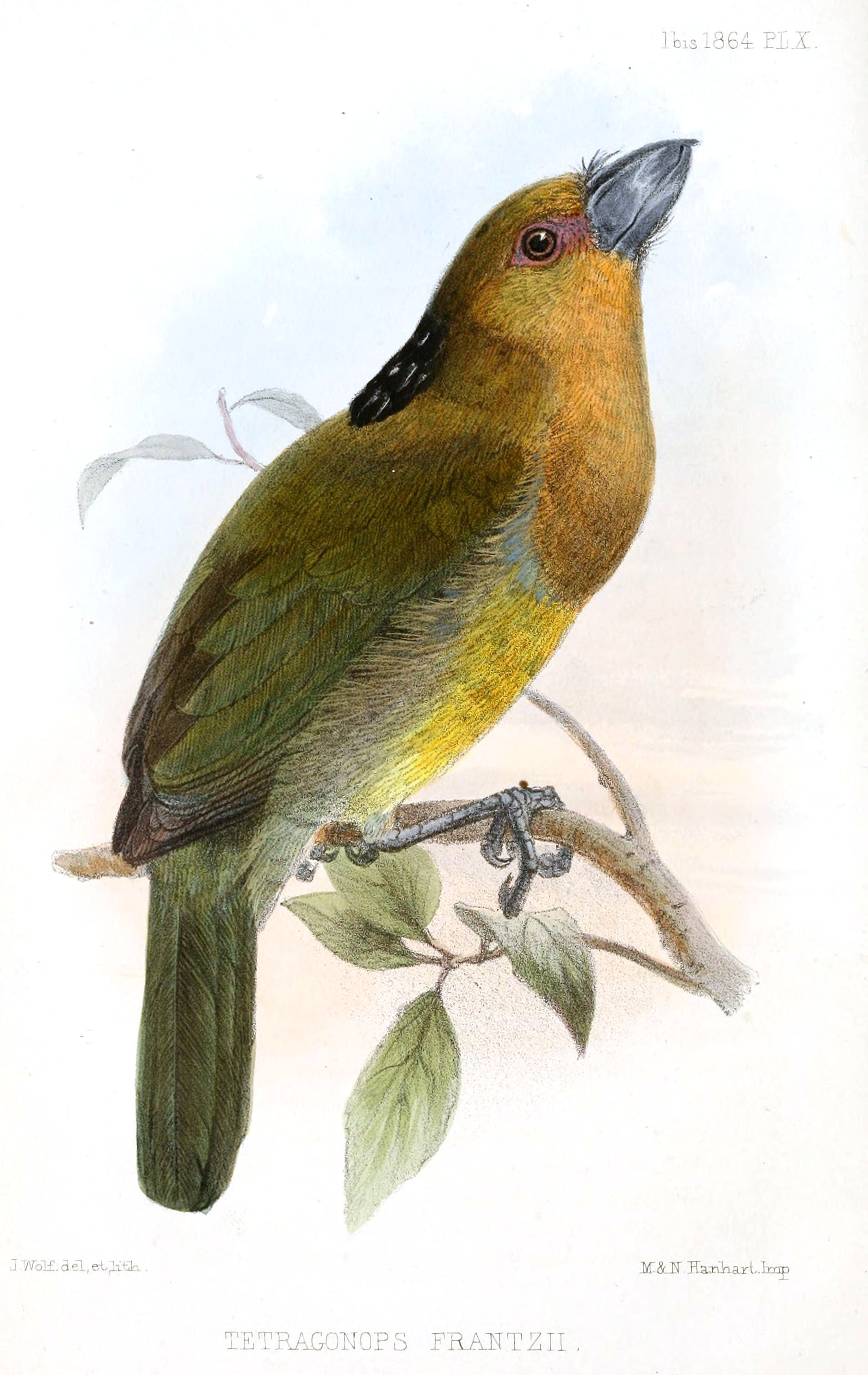 « Tetragonops frantzii » = Semnornis frantzii (Prong-billed Barbet)